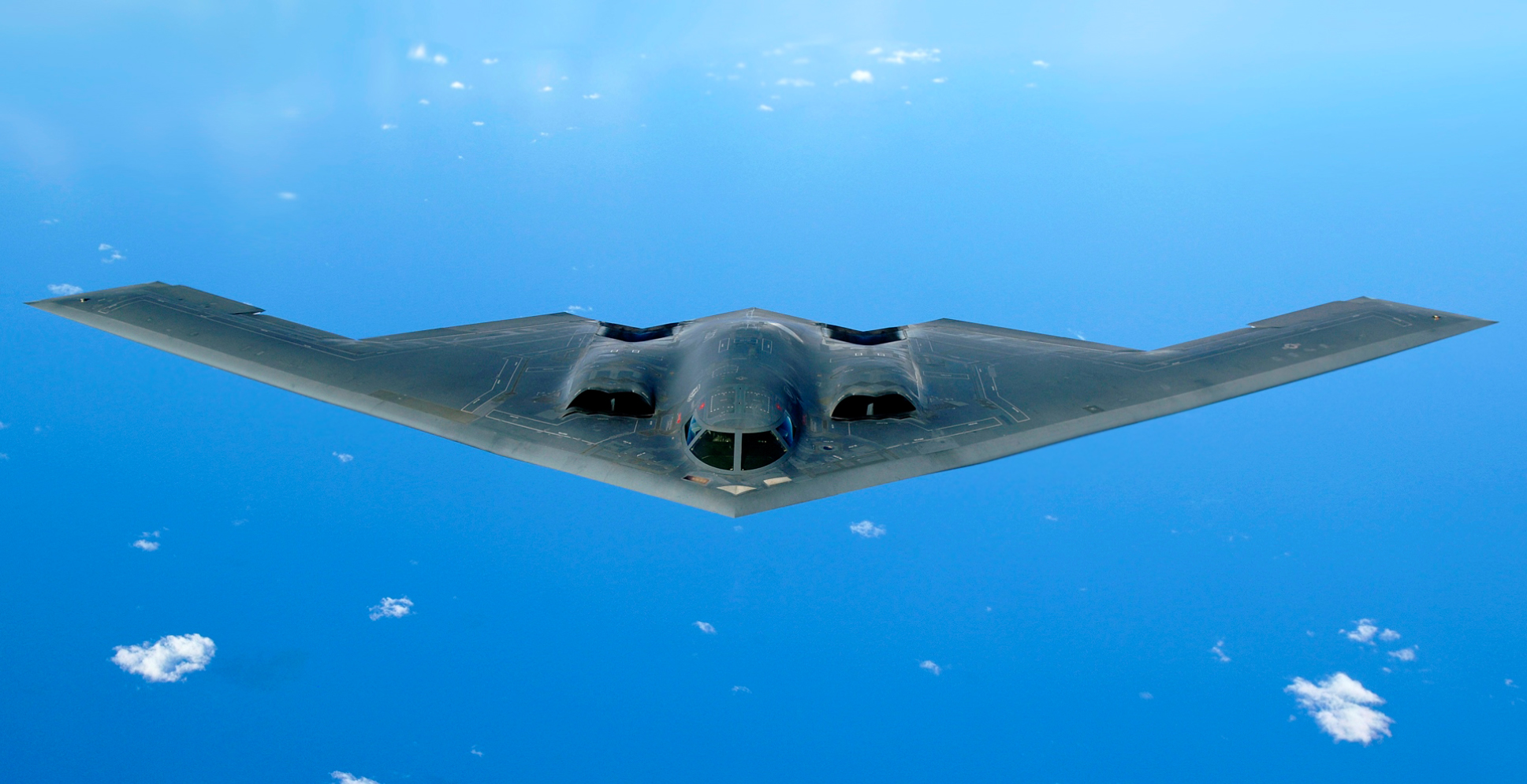 A B-2 Spirit soars after a refueling mission over the Pacific Ocean on Tuesday, May 30, 2006. The B-2, from the 509th Bomb Wing at Whiteman Air Force Base, Mo., is part of a continuous bomber presence in the Asia-Pacific region. (U.S. Air Force photo/Staff Sgt. Bennie J. Davis III)